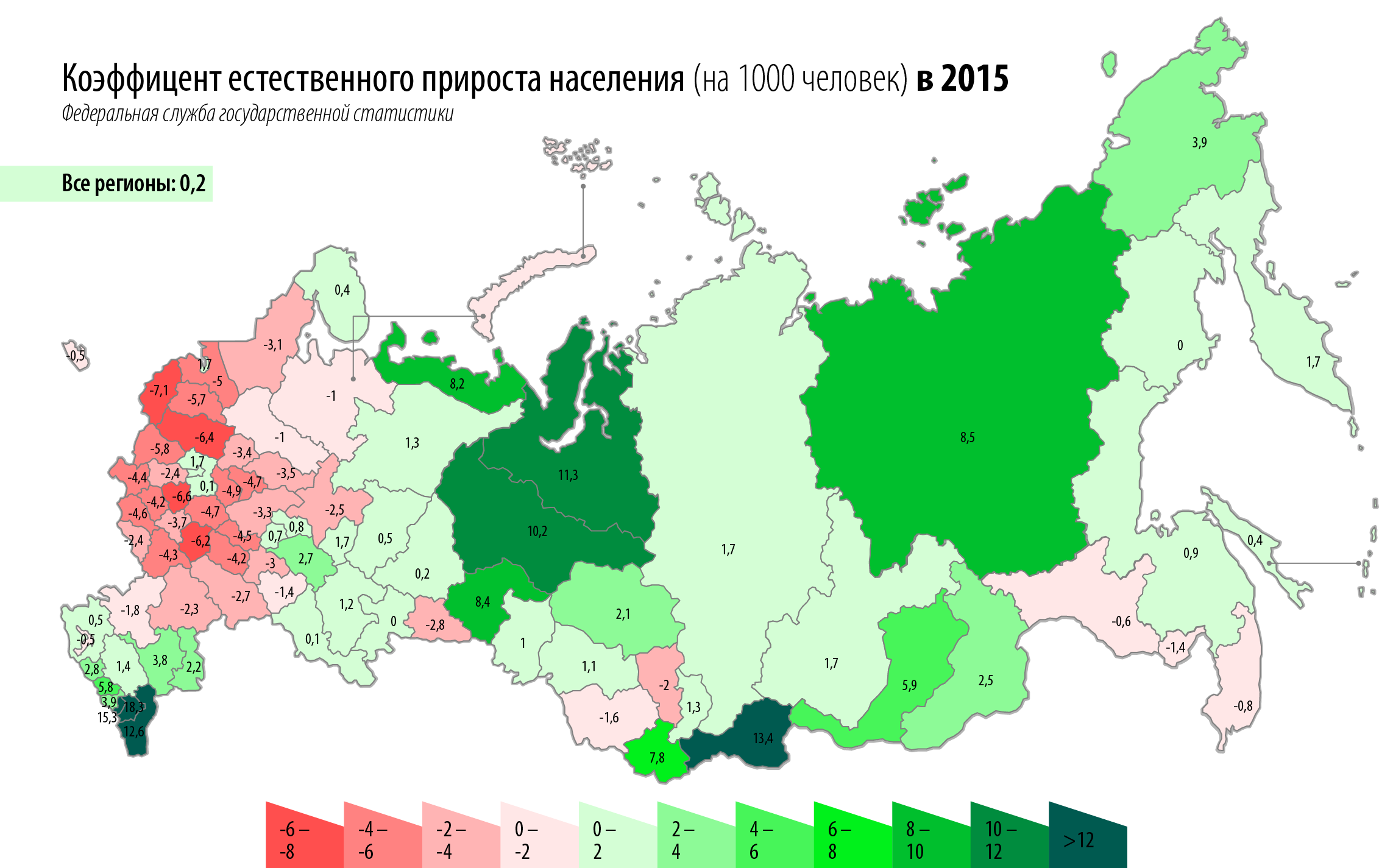 Natural population growth rates of Russia by region, 2015